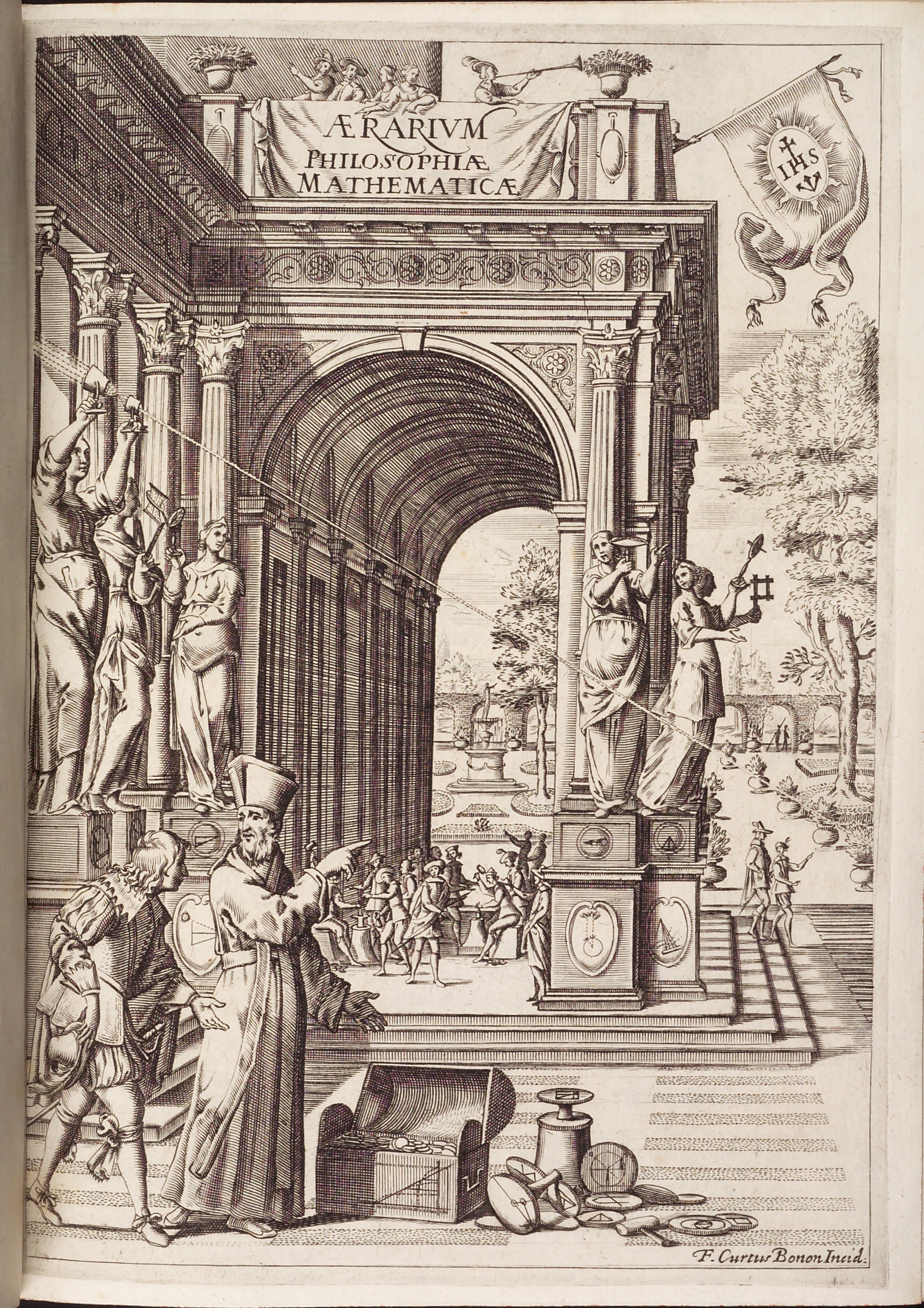 Aerarium philosophiae mathematicae. Frontispiz, aus: Mario Bettini, Aerarium philosophiae mathematicae, 3 Bde., Bologna 1648. Mainz, Stadtbibliothek